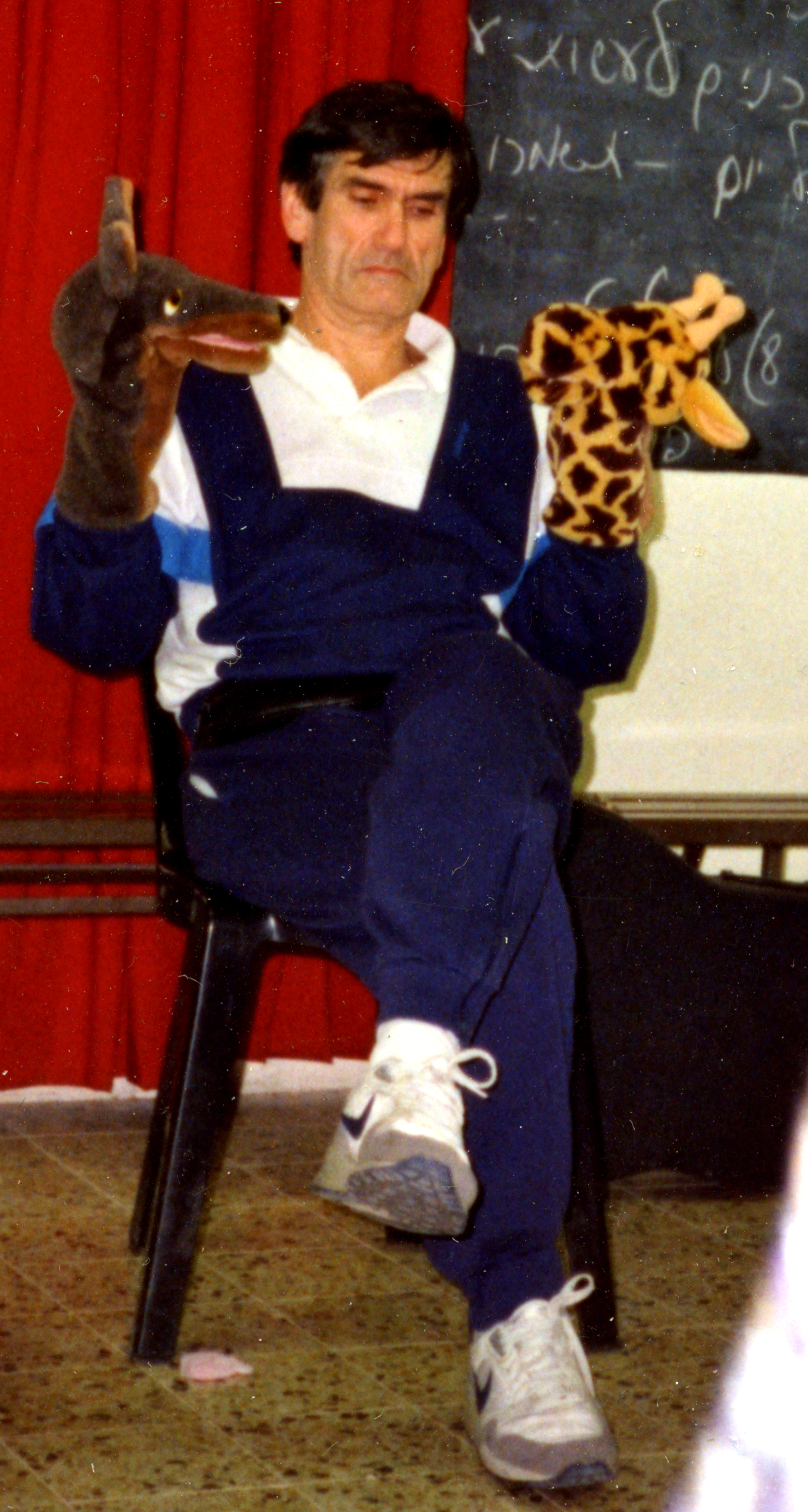 American psychologist 1934-2015 Marshall Rosenberg lecturing in Nonviolent Communication workshop, Neve Shalom ~ Wahat al-Salam. Israel (1990)